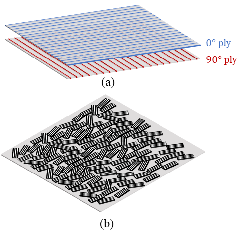 Laminate made of UD plies compared to CF SMC